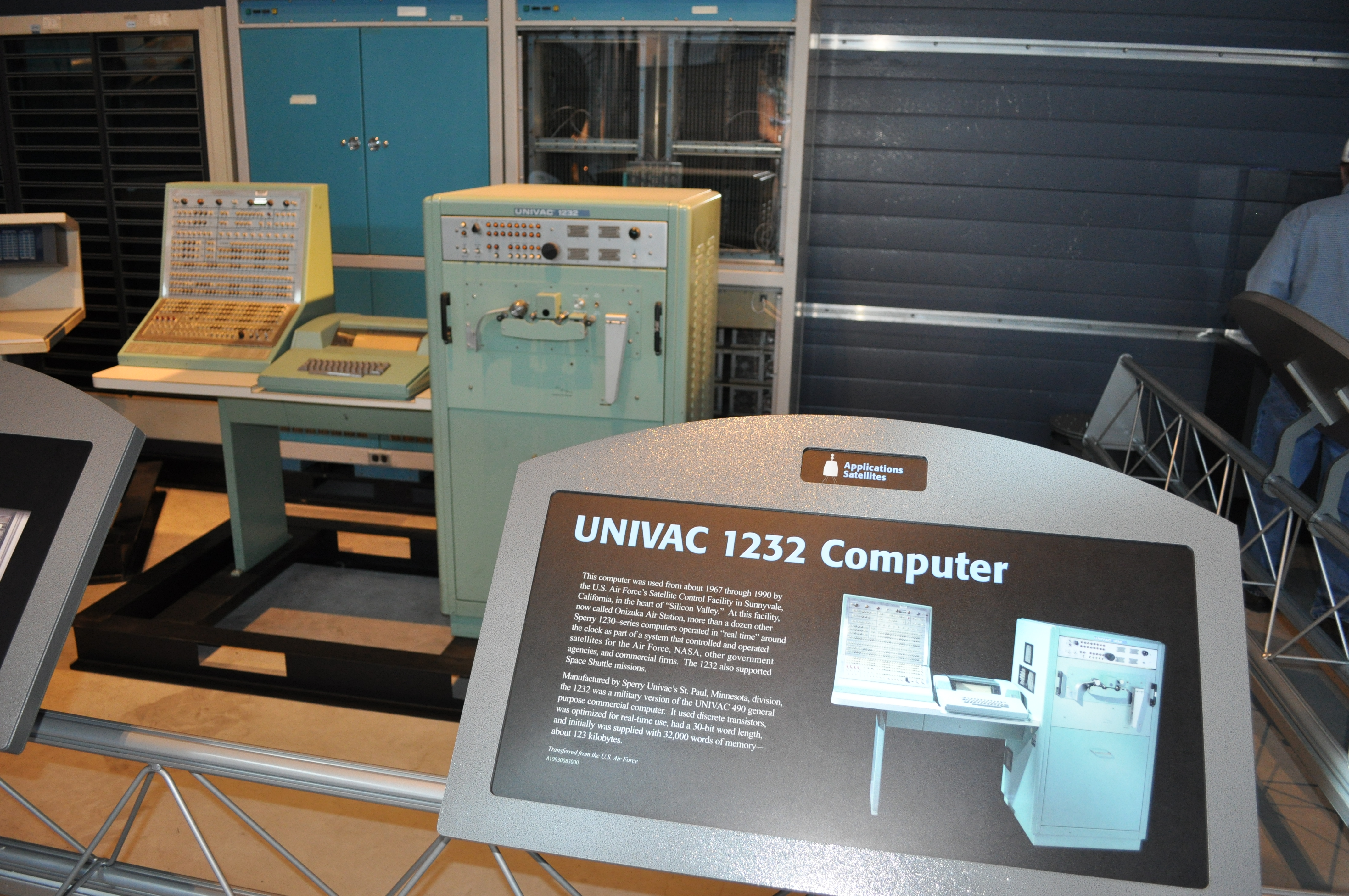 Several photos from the Steven F. Udvar-Hazy Center at the Smithsonian National Air and Space Museum Univac 1232 Computer The Caption reads: UNIVAC 1232 Computer This computer was used from abotu 1967 through 1990 by the U.S. Air Force's Satellite Control Facility in Sunnyvale, California, in the heart of "Silicon Valley." At this facility, now called Onizuka Air Station, more than a dozen other Sperry 1230-series computers operated in "real time" around the clock as part of a system that controlled and operated satellites for the Air force, NAS, other government agencies, and commercial firms. The 1232 also supported Space Shuttle missions. Manufactured by Sperry Univac's St. Paul, Minnesota, division, the 1232 was a military version of the UNIVAC 490 general purpose commercial computer. It used discrete transisters, was optimized for real-time use, had a 30-bit word length, and initially was supplied with 32,000 words of memory—about 123 kilobytes. Transferred fromt he U.S. Air Force A19930083000